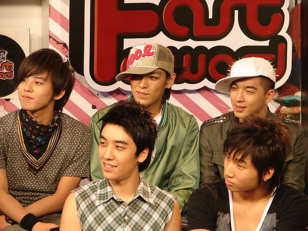 Big Bang (Korean Band) at MTV Fast Forward, Thailand